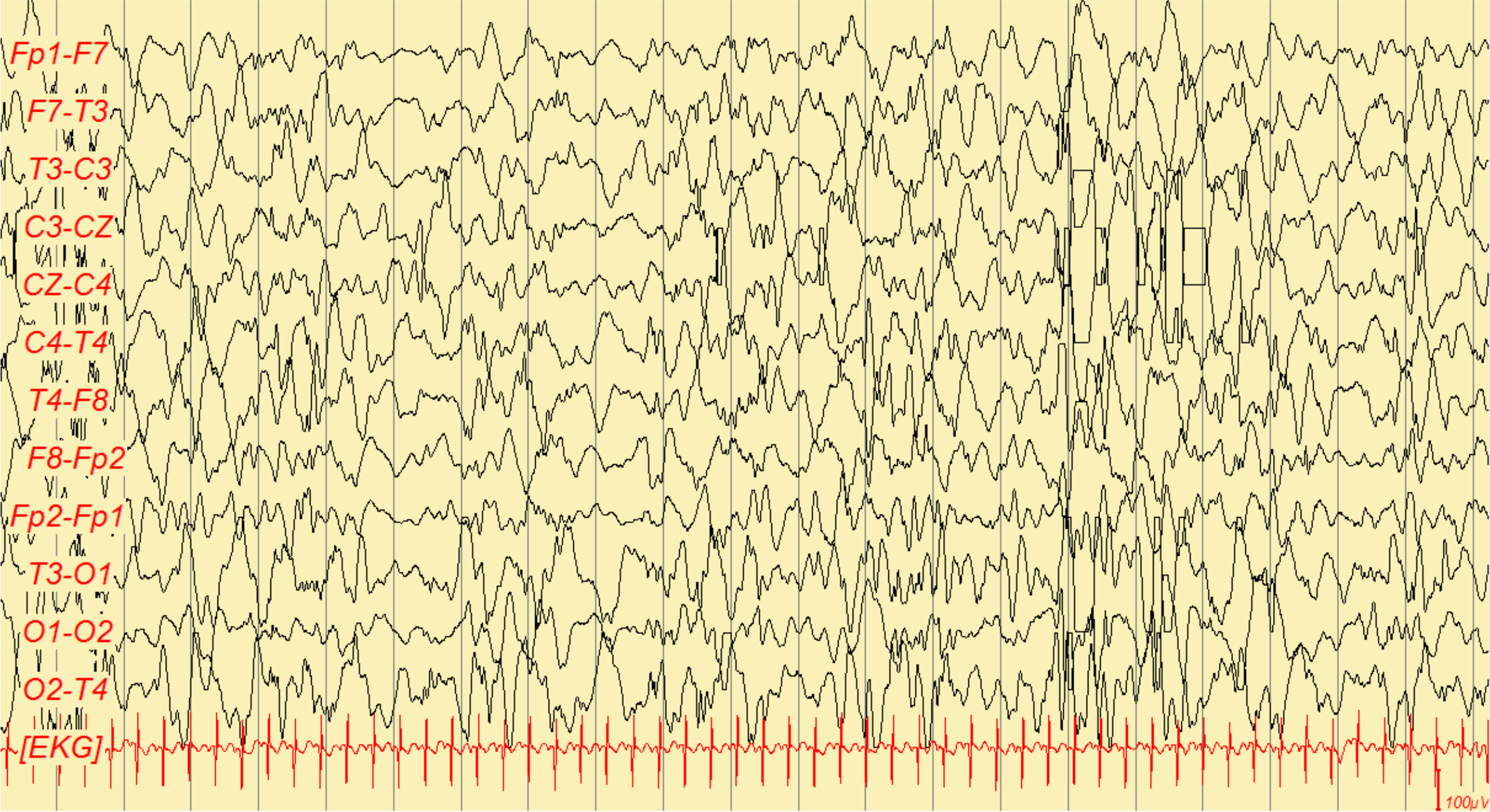 Conventional awake, scalp, interictal EEG showing disorganized activity, with high amplitude spikes and waves, with no activation methods. This compatible with hypsarrhythmia, in a 4-month old female patient diagnosed with cryptogenic West syndrome.